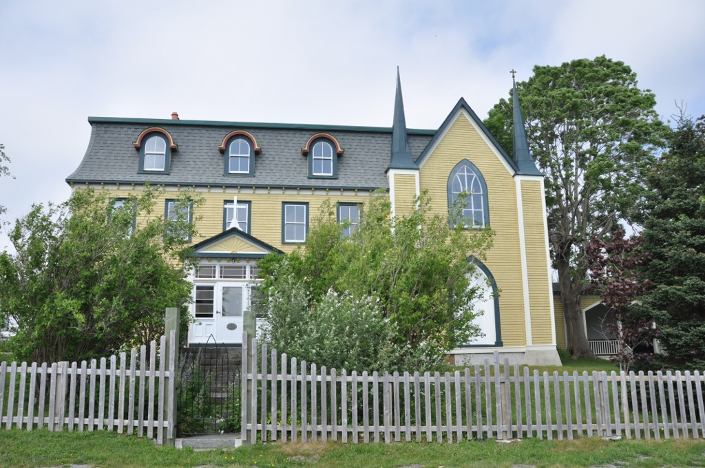 Holy Trinity Convent and Chapel Registered Heritage Structure, Witless Bay, Newfoundland.